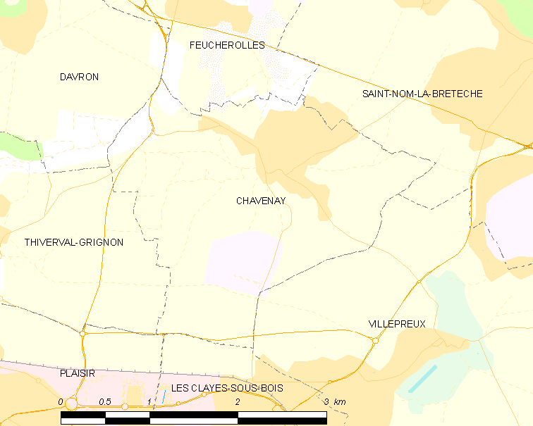 Map of French municipality Chavenay